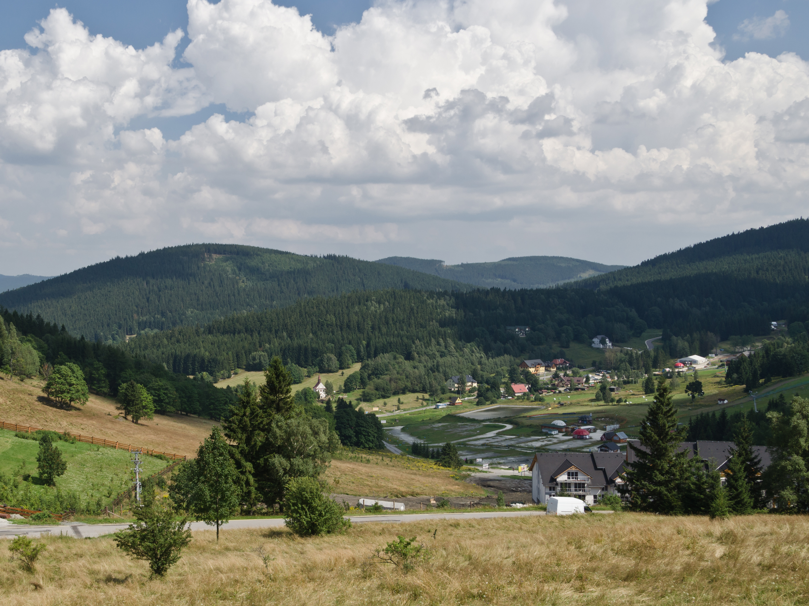 Sienna Village in Masyw Śnieżnika